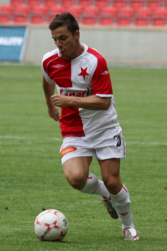 Milan Ivana, Slovak football striker, currently player of SK Slavia Prague, photo shot during preseason friendly match against FC Nitra, June 25th 2008, Eden, Prague